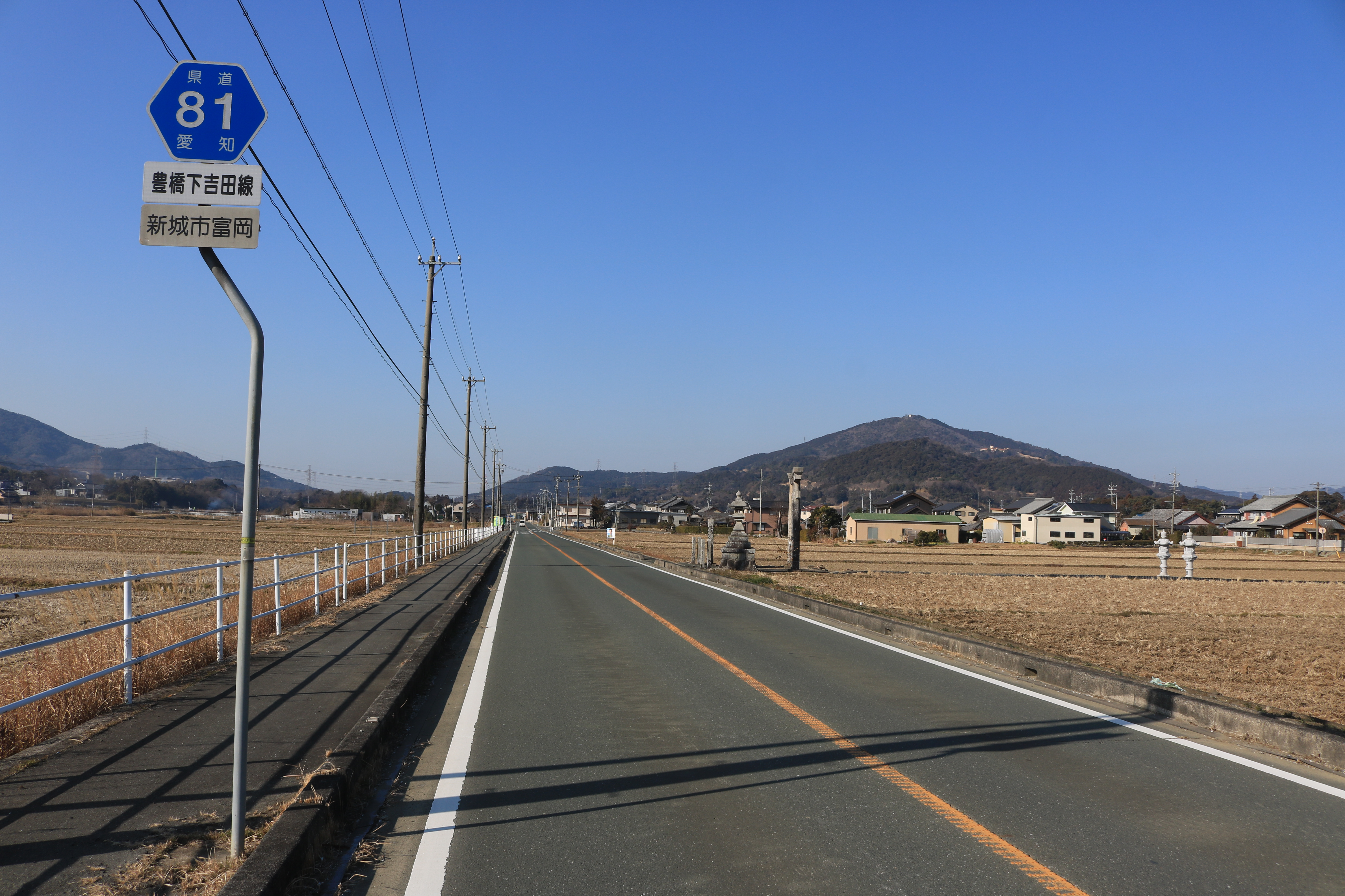 Aichi Prefectural Road Route 81 and Mount Kichijo in Tomioka, Shinshiro, Aichi Prefecture, Japan. Canon EOS Kiss X8i